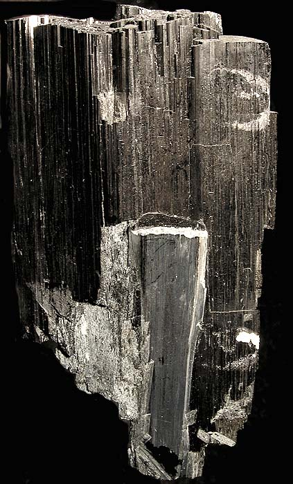 Arfvedsonite Locality: Poudrette quarry (Demix quarry; Uni-Mix quarry; Desourdy quarry), Mont Saint-Hilaire, Rouville RCM, Montérégie, Québec, Canada (Locality at ) Exceptionally sharp crystals for the species, with excellent sculptural form, and great luster! Though the bottom termination is extended and hoppered a bit, it is terminated all around and is a floater with no attachment points! These are from a new find in December of 2003. 7.8 x 4.4 x 1.4 cm